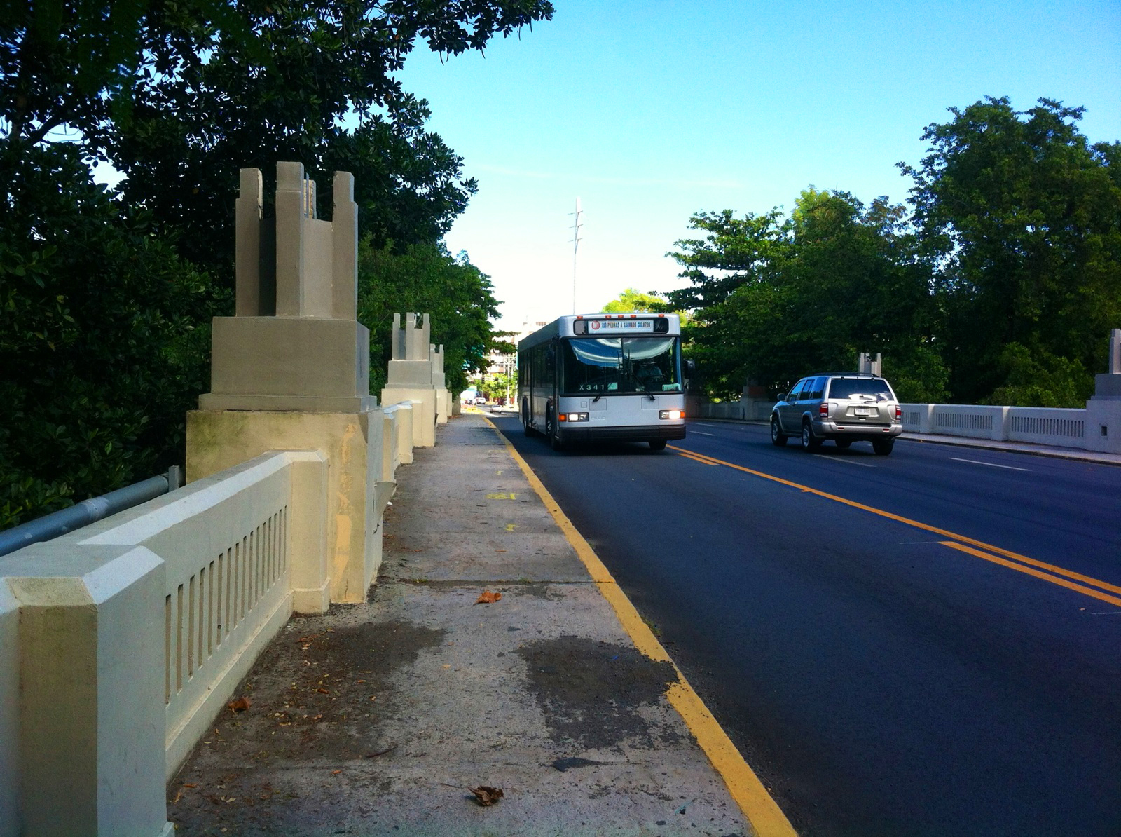 Martín Peña Bridge, aka Bridge # 185, Martín Peña Channel Bridge / Architect/Builder: Cecilio Delgado, Francisco Fortuño Raúl Gayá Benejam, Blanquita Calzada, Carlos Amador